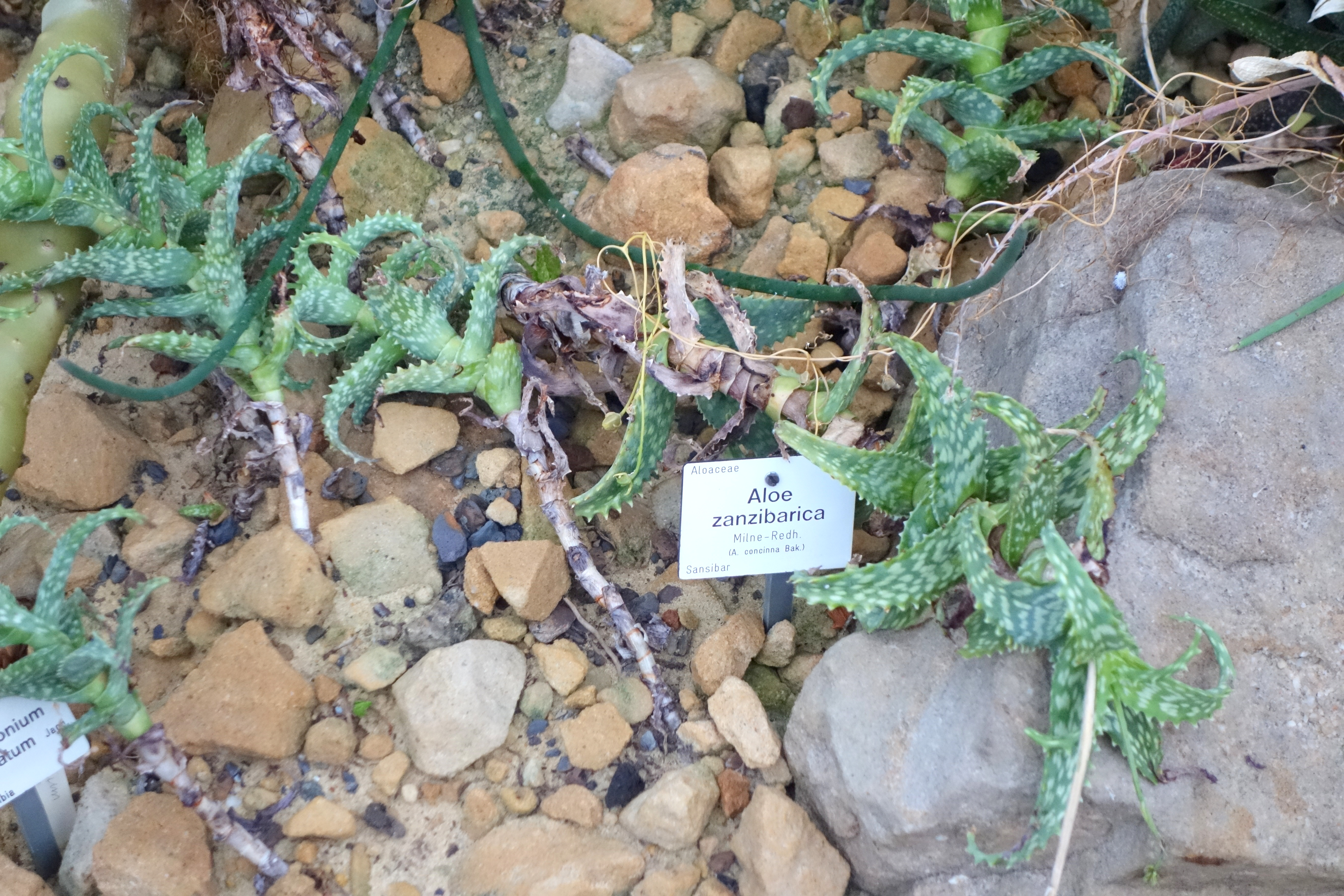 Botanical specimen in the Botanischer Garten, Dresden, Germany.